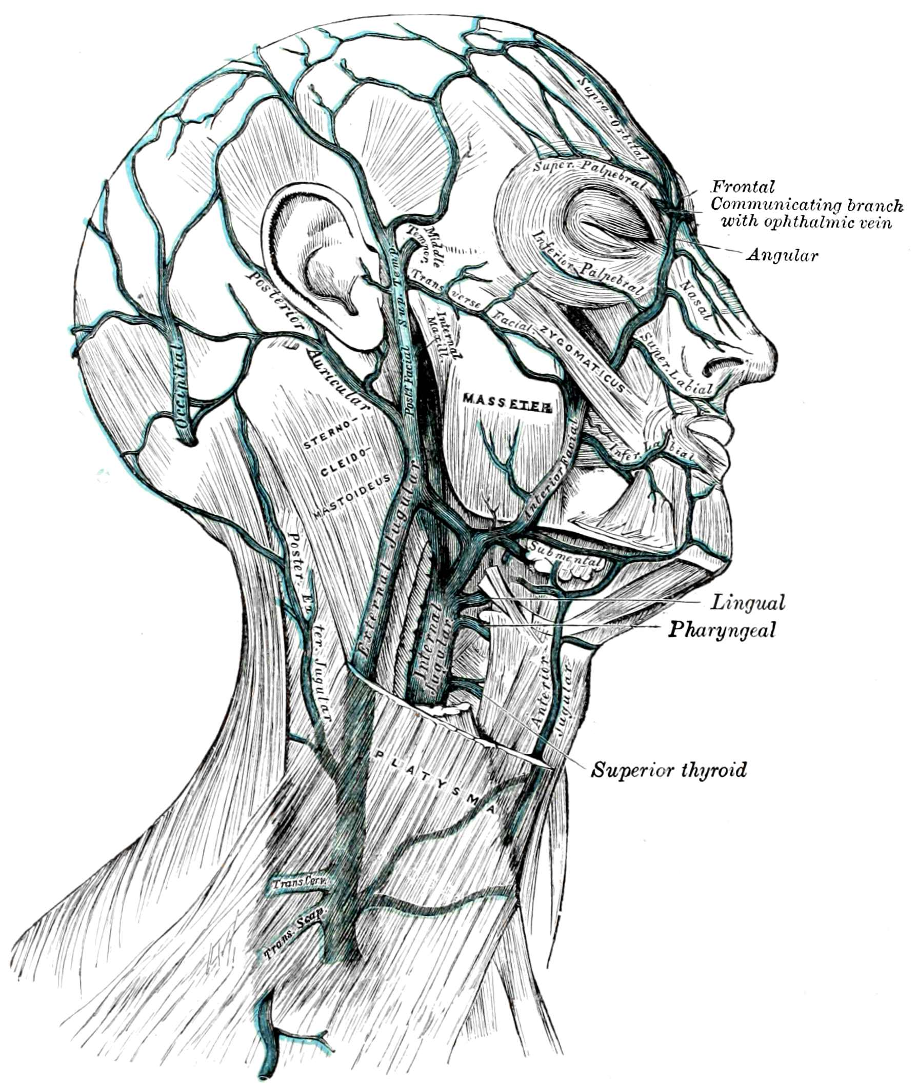 Lateral view of the side of the head and neck, showing outermost / external veins as well as some of the musculature